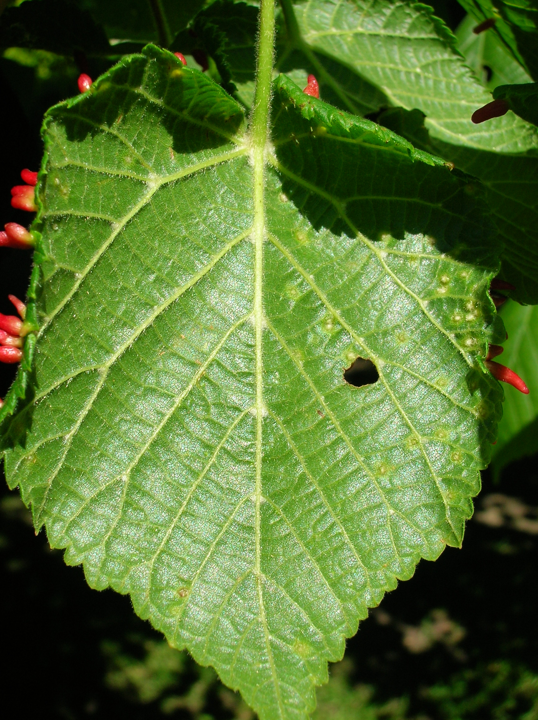 Tilia × europaea underside with Eriophyes tiliae tiliae galls on upper epidermis. North Ayrshire. Eglinton. Scotland.